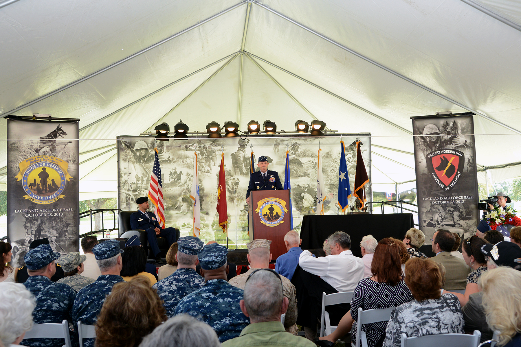 Lt. Gen. James Holmes, Air Education and Training Command vice commander, speaks at the U.S. Military Working Dog Teams National Monument dedication ceremony Oct. 28 at Joint Base San Antonio-Lackland. (U.S. Air Force photo by Ben Faske)